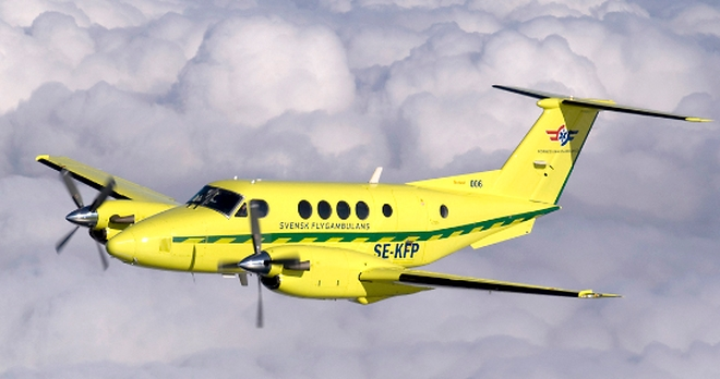 Beechcraft Super King Air plane, operated by Svensk Flygambulans AB